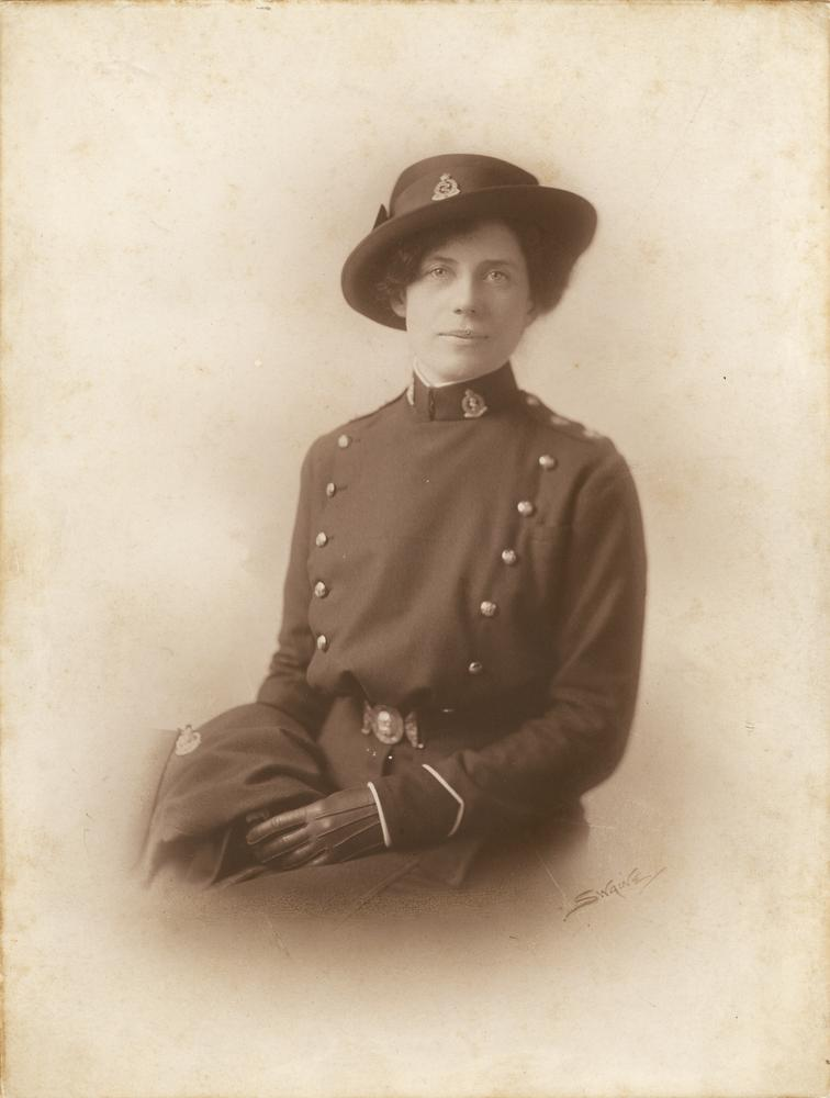 ID number: P10871.005 Photographer: Swaine Place: London Though Phoebe Chapple was recognised as a skilled doctor, the Australian government’s policies precluded her from military service. Undaunted, the Adelaide-born Chapple travelled to Britain in 1917 and joined the Royal Army Medical Corps, becoming one of the first two woman doctors sent to France. During a bombing raid near Abbeville in May 1918, her care for those wounded around her, regardless of personal danger, led to her being awarded the Military Medal – the first woman doctor ever to receive this decoration for bravery. Further information about Dr Chapple is available on the Memorial’s website, Rights Info: No known copyright restrictions. This photograph is from the Australian War Memorial's collection Persistent URL